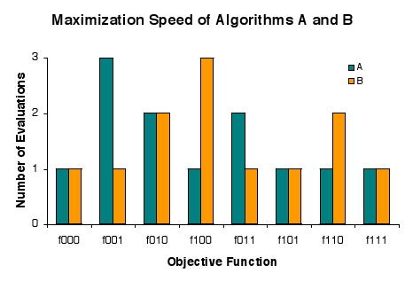 Illustration of no free lunch in optimization